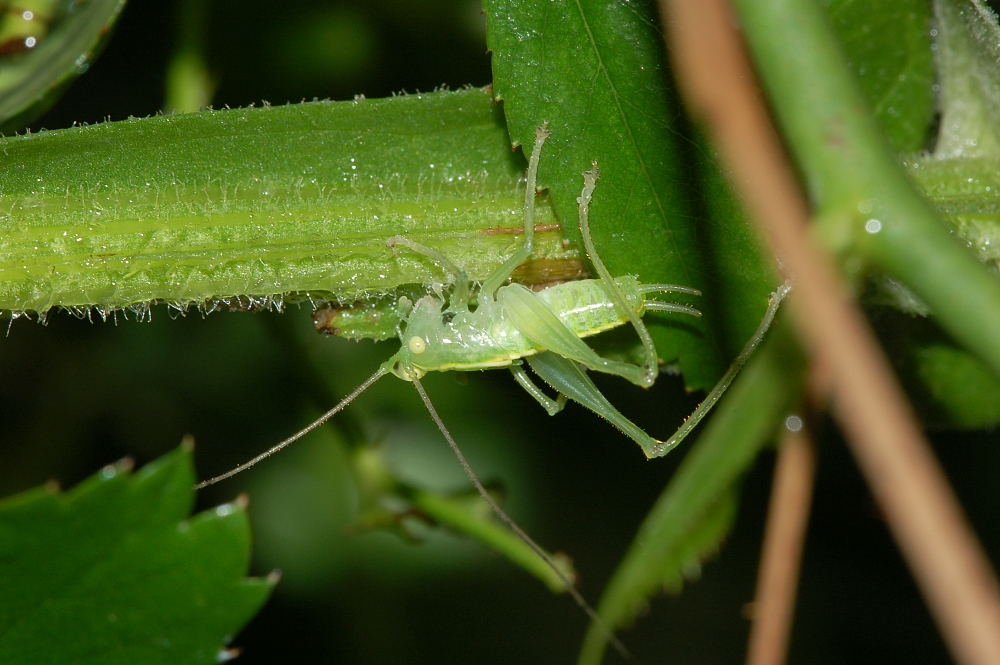 Meconema meridionale, Nied, Frankfurt/Main, Germany